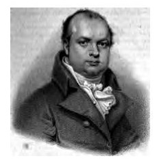 Portrait of Robert Harding Evans (1778–1857), English bookseller and auctioneer.